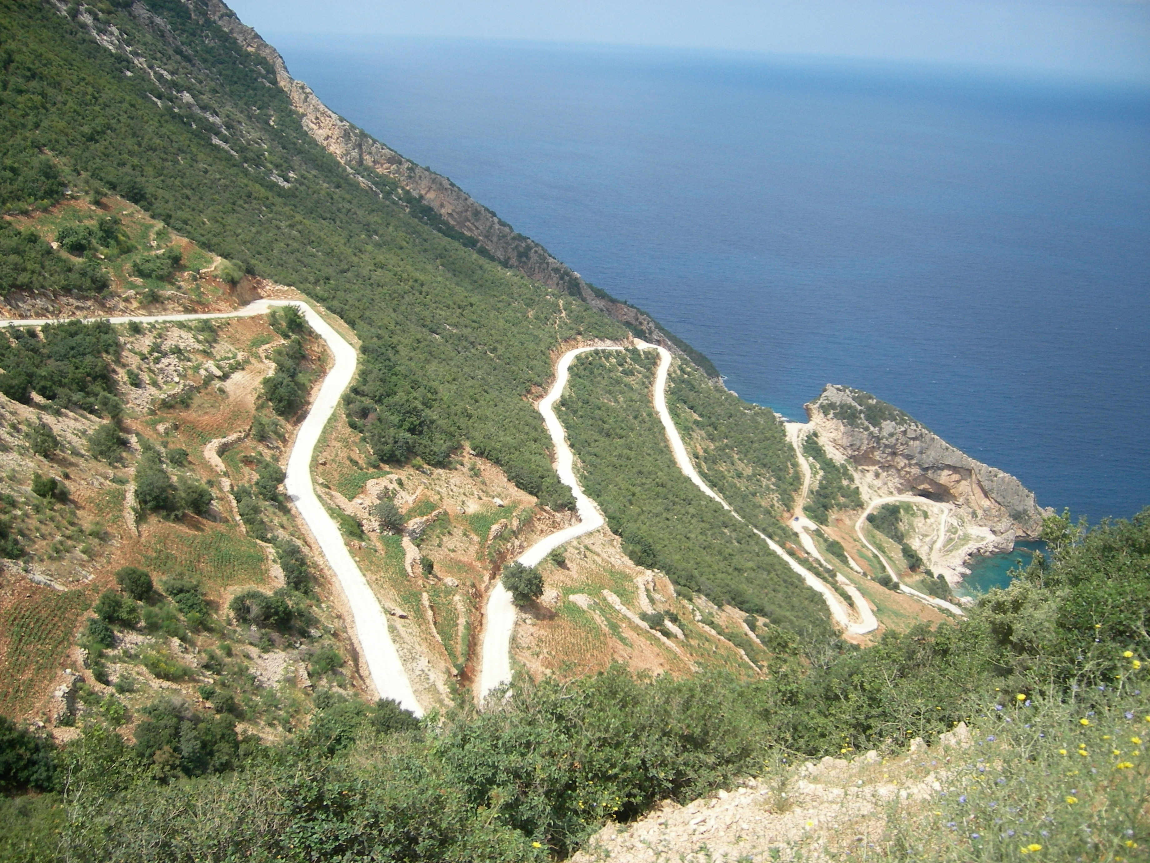 Black Cave road, in Yayladağı